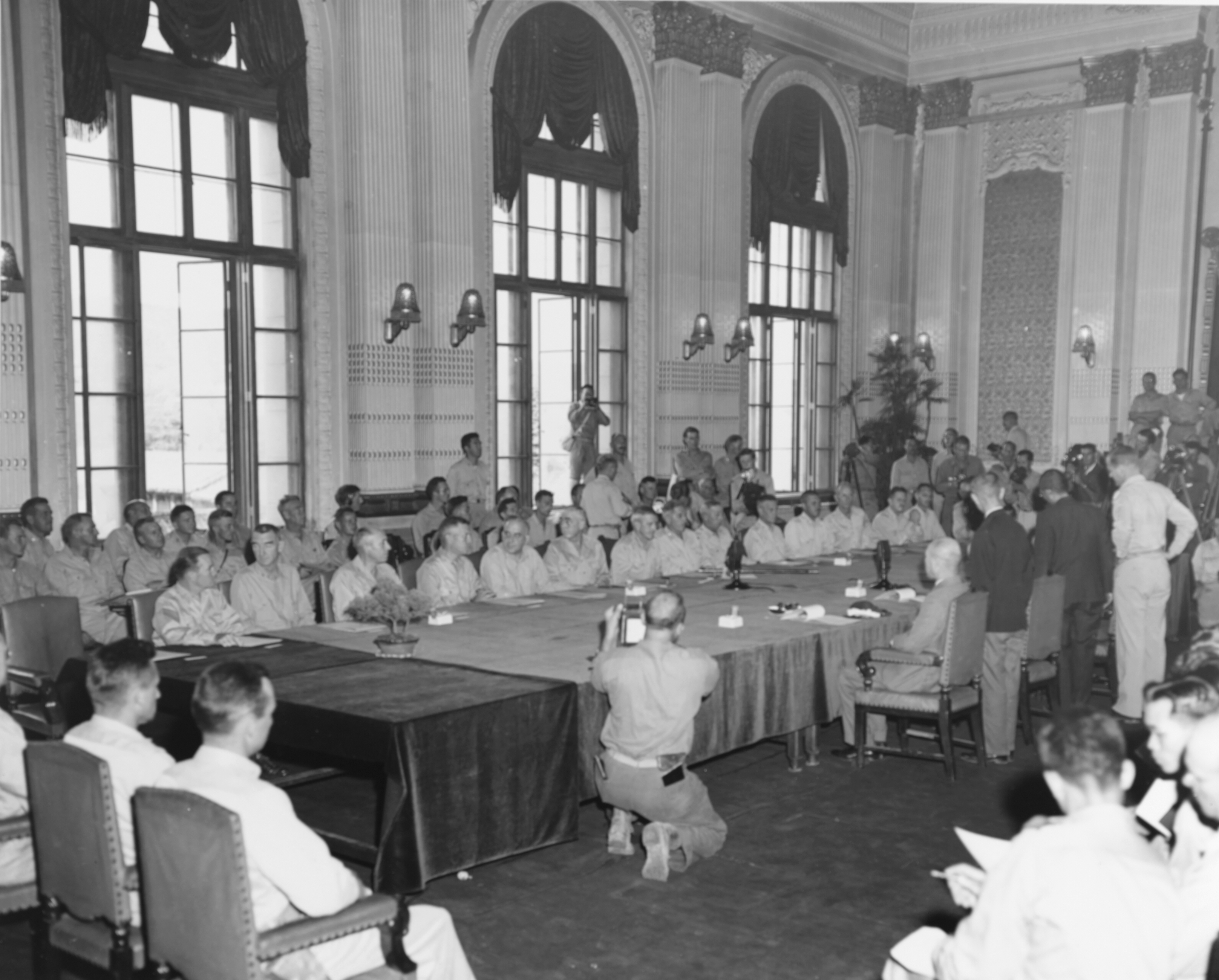 Surrender ceremonies in the Government Building at Keijo (Seoul), Korea, 9 September 1945. The Japanese delegation is on the right side of the table. U.S. representatives, on the opposite side of the table, include (seated, left to right): Brigadier General D.W. Hutchinson; Commodore Thomas Brittain; Rear Admiral T.S. Combs; Rear Admiral Francis S. Low; Vice Admiral Daniel E. Barbey; Admiral Thomas C. Kinkaid; Lieutenant General John R. Hodge; Major General A.V. Arnold; Major General G.X. Cheeves; Brigadier General Joseph T. Ready; Brigadier General LeRoy J. Stewart; Brigadier General Charles Harris; Brigadier General Crump Garvin and Brigadier General Lawrence E. Schick.